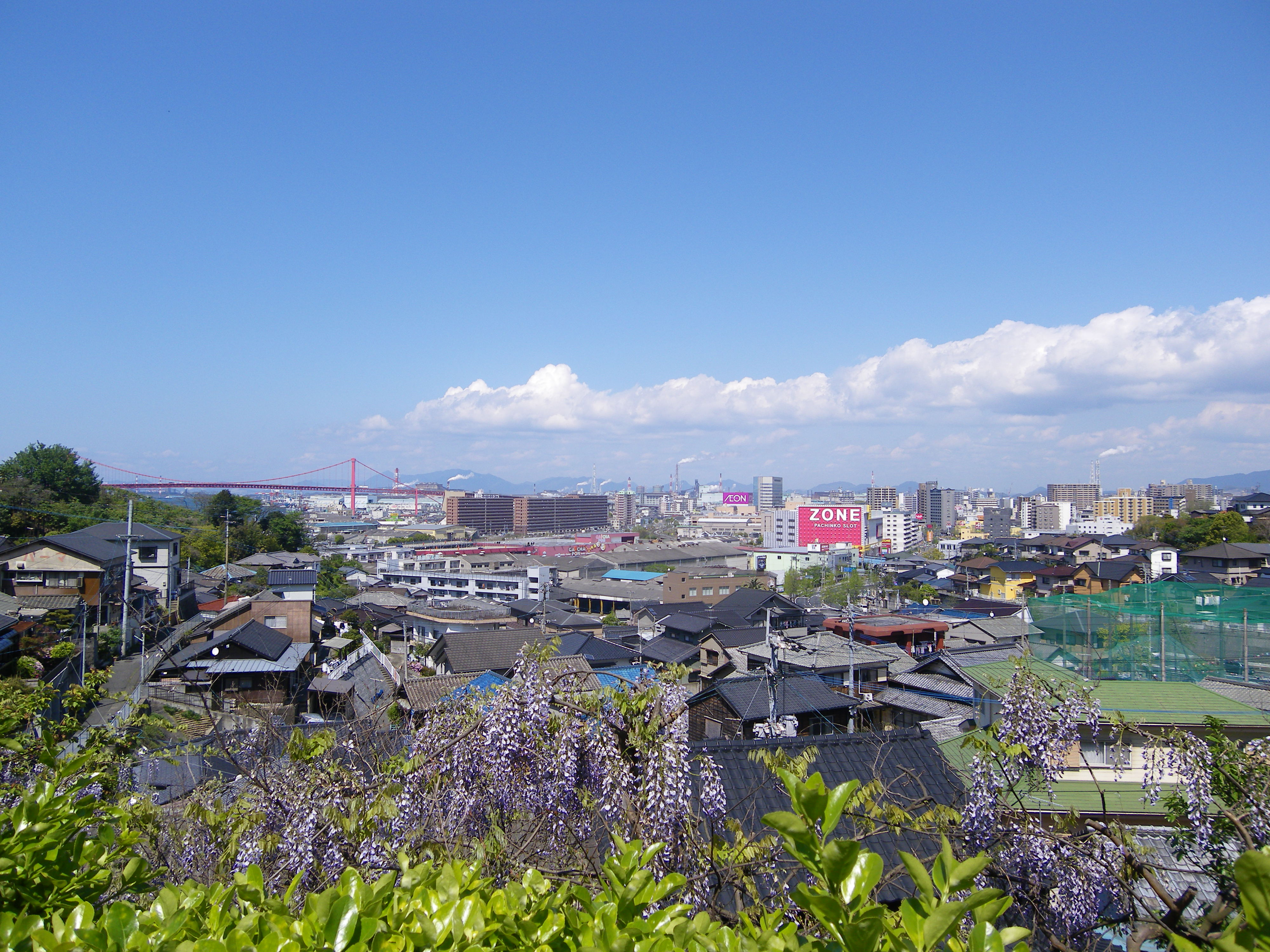 The cityscape around the Tobata station, Kitakyushu.